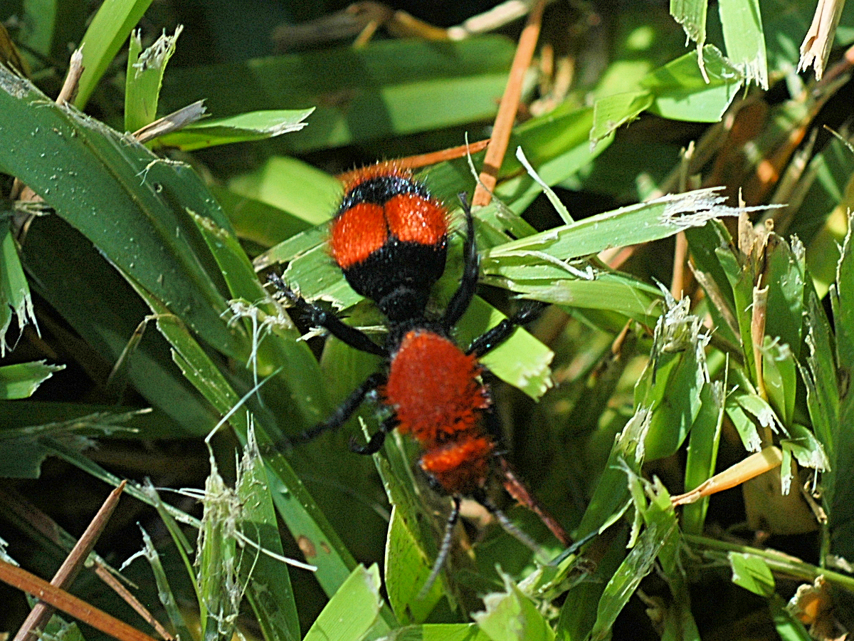 A female Mutillidae, or "velvet ant," in southeast Texas, USA